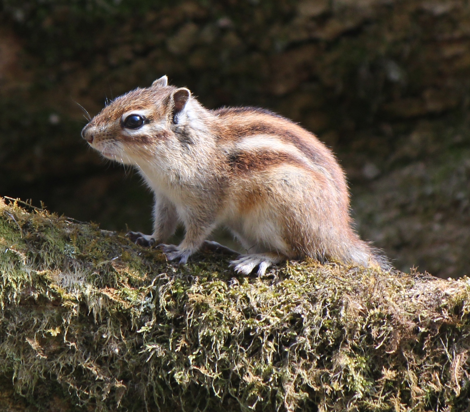 Tamias sibiricus barberi, in Mount Oike, Higashiomi, Shiga prefecture, Japan.